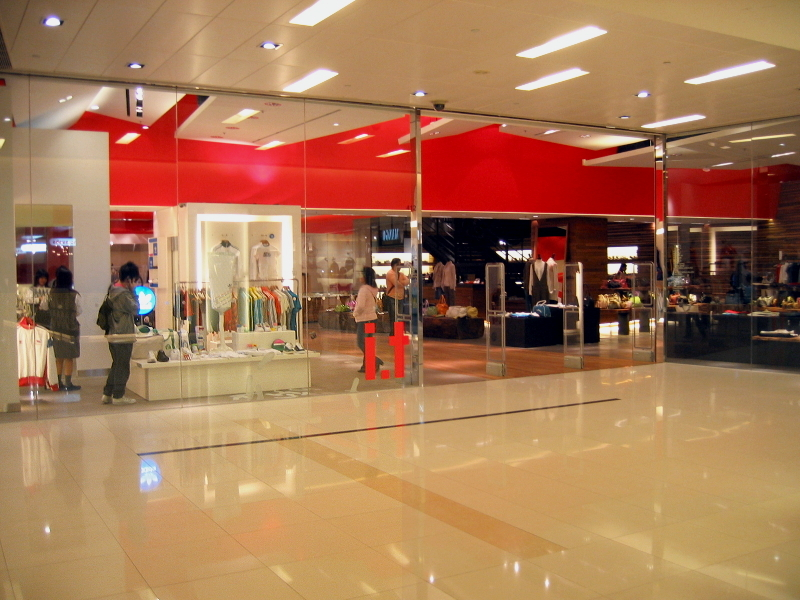 i.t Shatin New Town Plaza Store